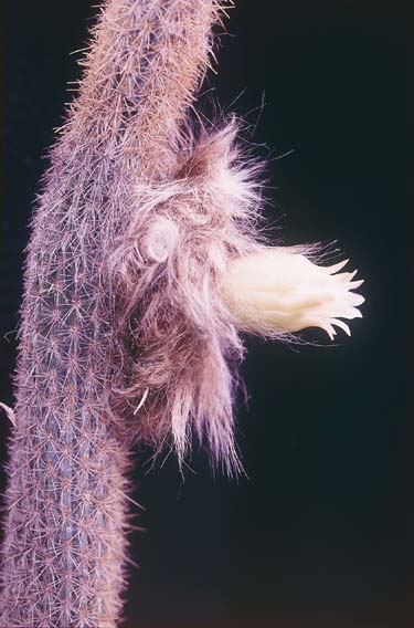 plant of the type collection, SW Bahia, Brasil